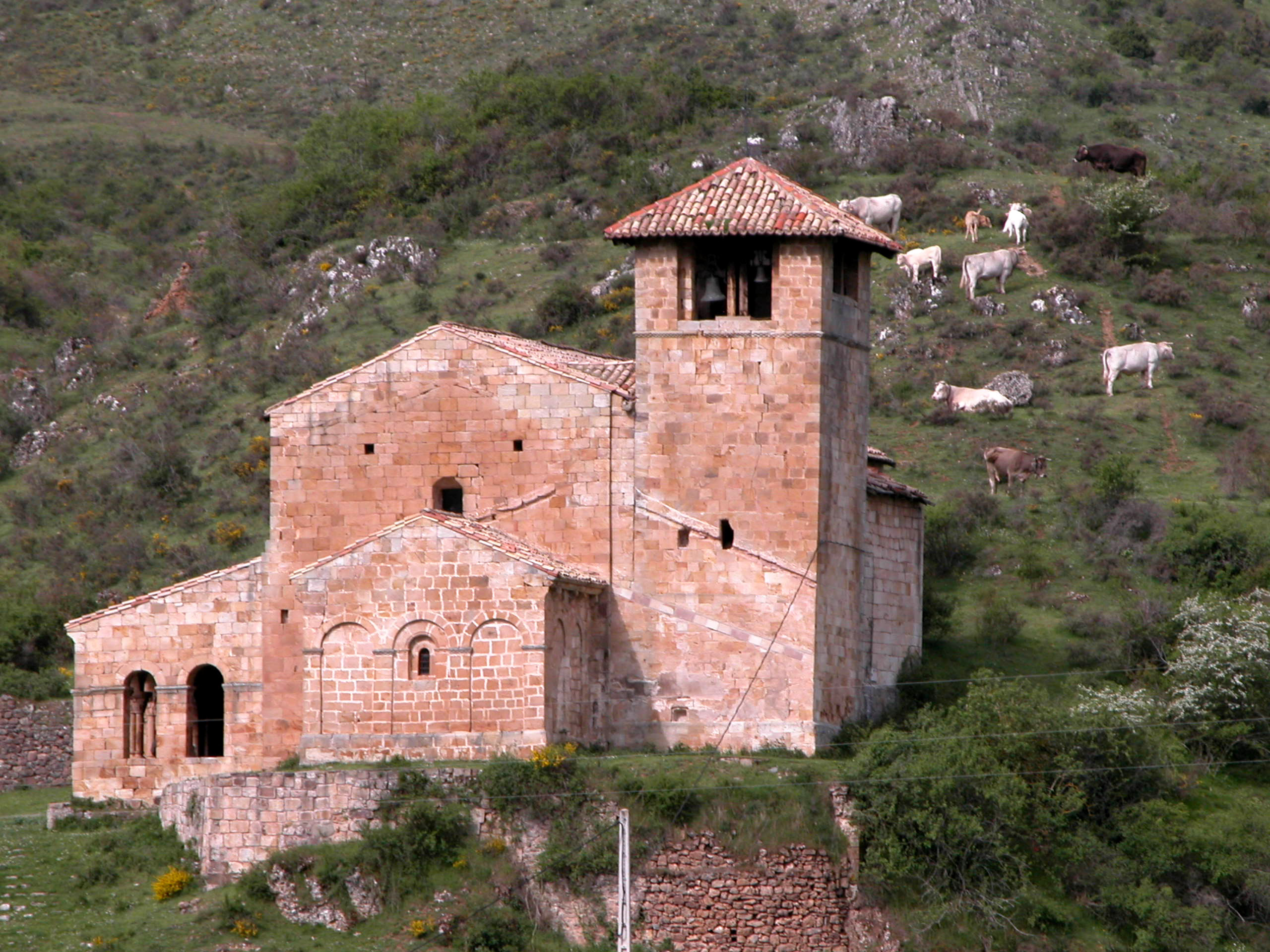 Ermita de San Cristóbal en Canales de la Sierra (La Rioja - España).